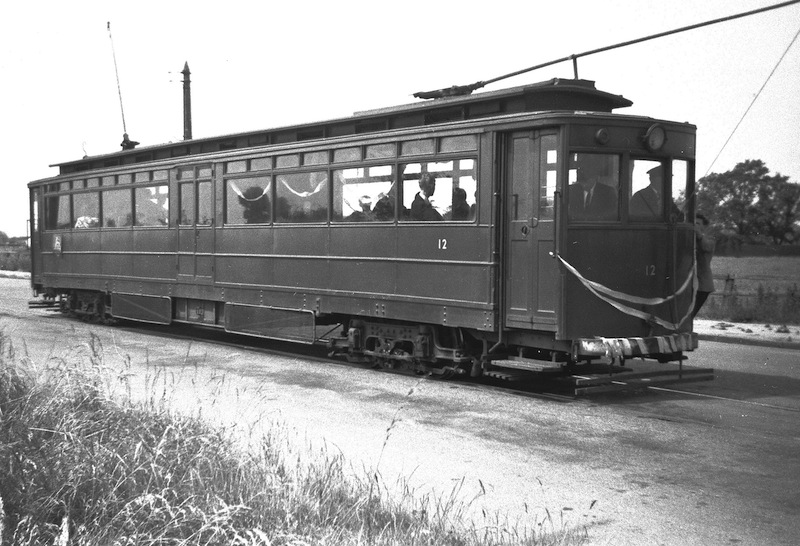 Grimsby & Immingham Electric Railway - last car